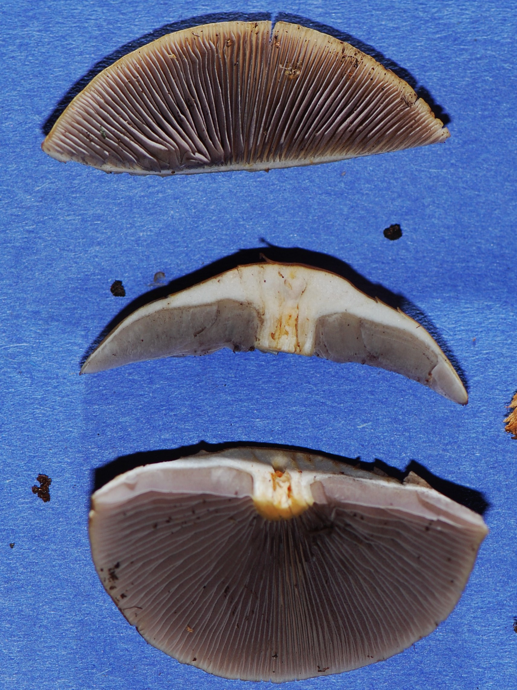 Hypholoma capnoides cap in cross section